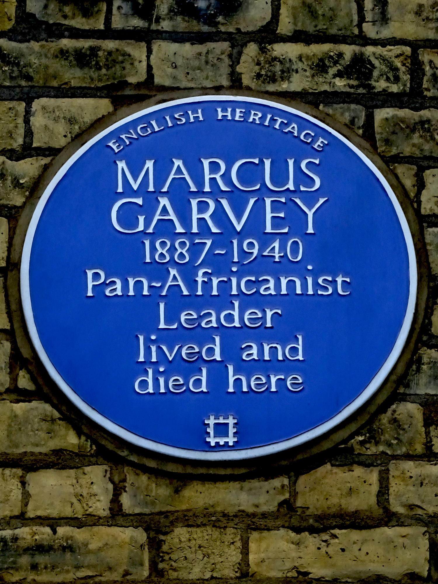 Blue plaque erected in 2005 by English Heritage at 53 Talgarth Road, Barons Court, London W14 9DD, London Borough of Hammersmith and Fulham